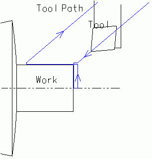 CNC machining example path